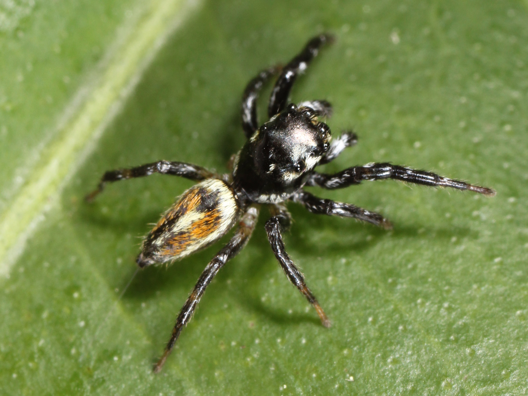 Adult male Pachomius jumping spider (possibly Pachomius hadzji) in Community Baboon Sanctuary, Belize District, Belize